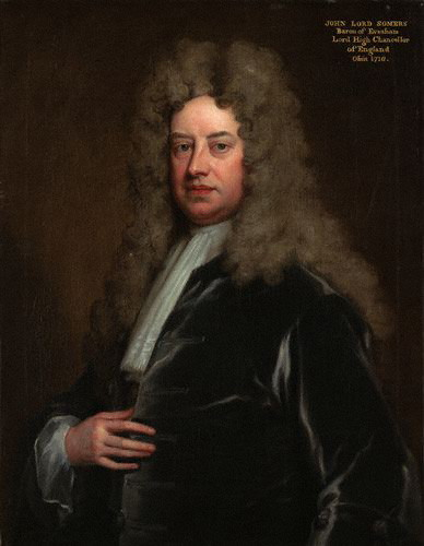 John Somers, Baron Somers, by Sir Godfrey Kneller, Bt (died 1723), given to the National Portrait Gallery, London in 1877.